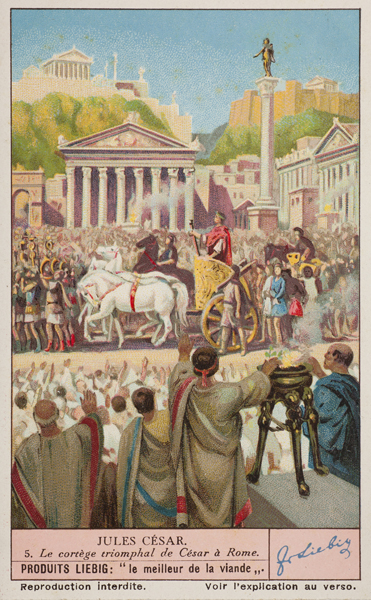 Liebig Chromos. Trade card.Series 1378, Julius Caesar, no 5, Caesar's triuph at Rome. 1938. Private collection Paul MR Maeyaert. 11 x 7,1cm. ; Ref: PM_110511_Liebig_Chromos; Cultural heritage; Cultural heritage|Techniques|Postcard trade card. Text on reverse: JULES CÉSAR; 5. - Le cortège triomphal de César à Rome.; L'Orient pacifié, César se tourna vers l'occident où les derniers partisans de Pompée et de la république regroupaient leurs troupes. Scipion, illustre descendant des vainqueurs de Carthage et Juba, roi de Numidie, furent défaits a Thapsus. Alors, cinq ans après la cessation de la guerre des Gaules et après quatre ans de guerre civile, César, en un magnifique triomphe, célébra toutes ses victoires sur les ennemis. En même temps le Sénat qui, après Pharsale, pressentant en lui un maître tout-puissant, lui avait décerné la dictature pour un an. lui renouvela cette charge pour 10 ans, avec la censure et le droit perpétuel de siéger a côté des consuls de l'armée. La vieille république paraissait bien morte ; cependant en 45 César dut courir en Espagne faire face à une dernière tentative pompéienne, celle de Sextus Pompée, fils du triumvir défunt. La victoire de Munda valut A César, de la part d'un Sénat asservi plus que jamais. le titre à perpétuité d'imperator et la nomination; de tous les magistrats. L'empire existait en fait, sinon de nom.